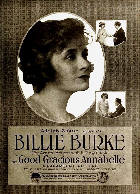 Ad for the American film Good Gracious, Annabelle (1919) with Billie Burke, on page 1413 of the March 15, 1919 Moving Picture World.